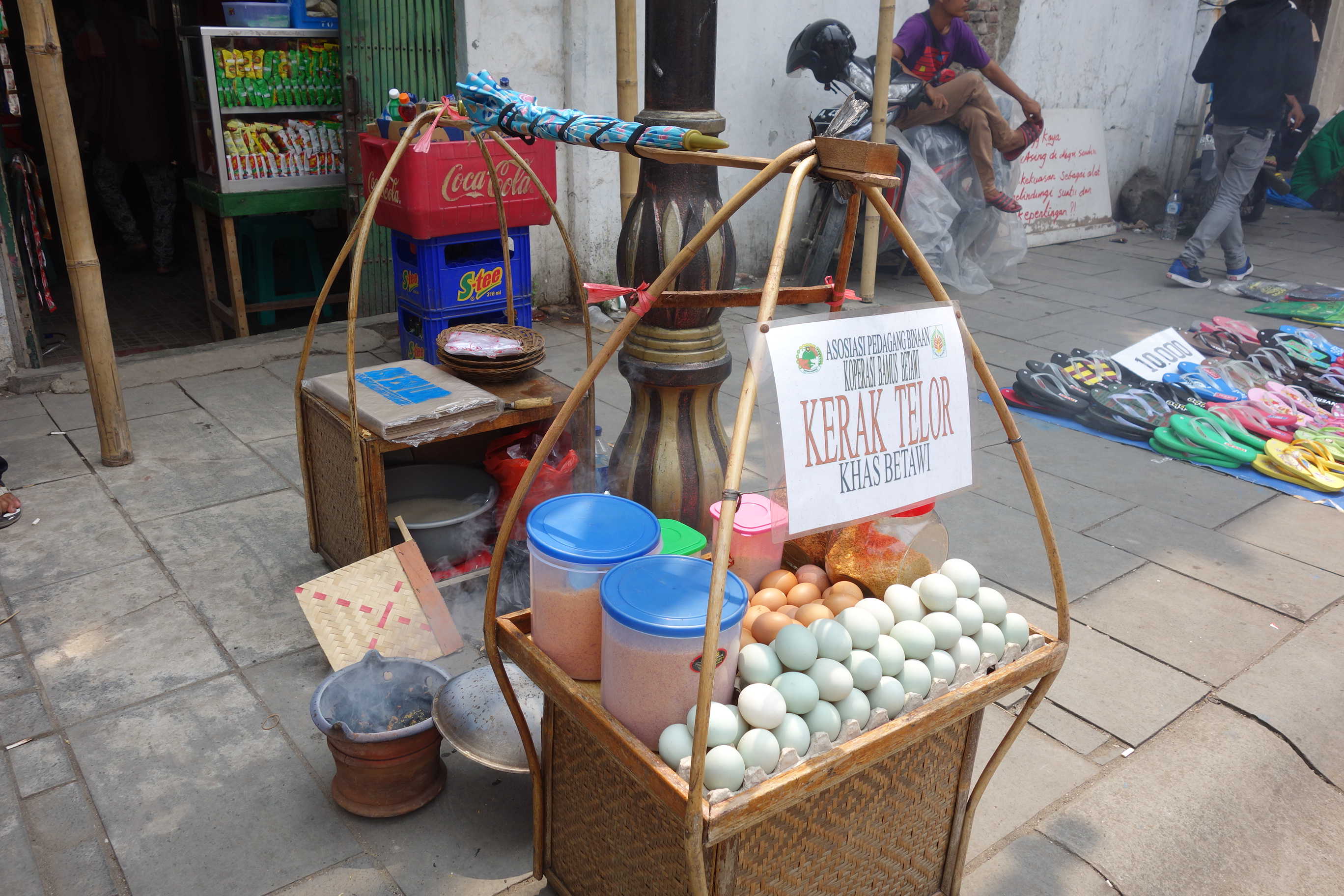 A tray of kerak telor vendor in Jakarta